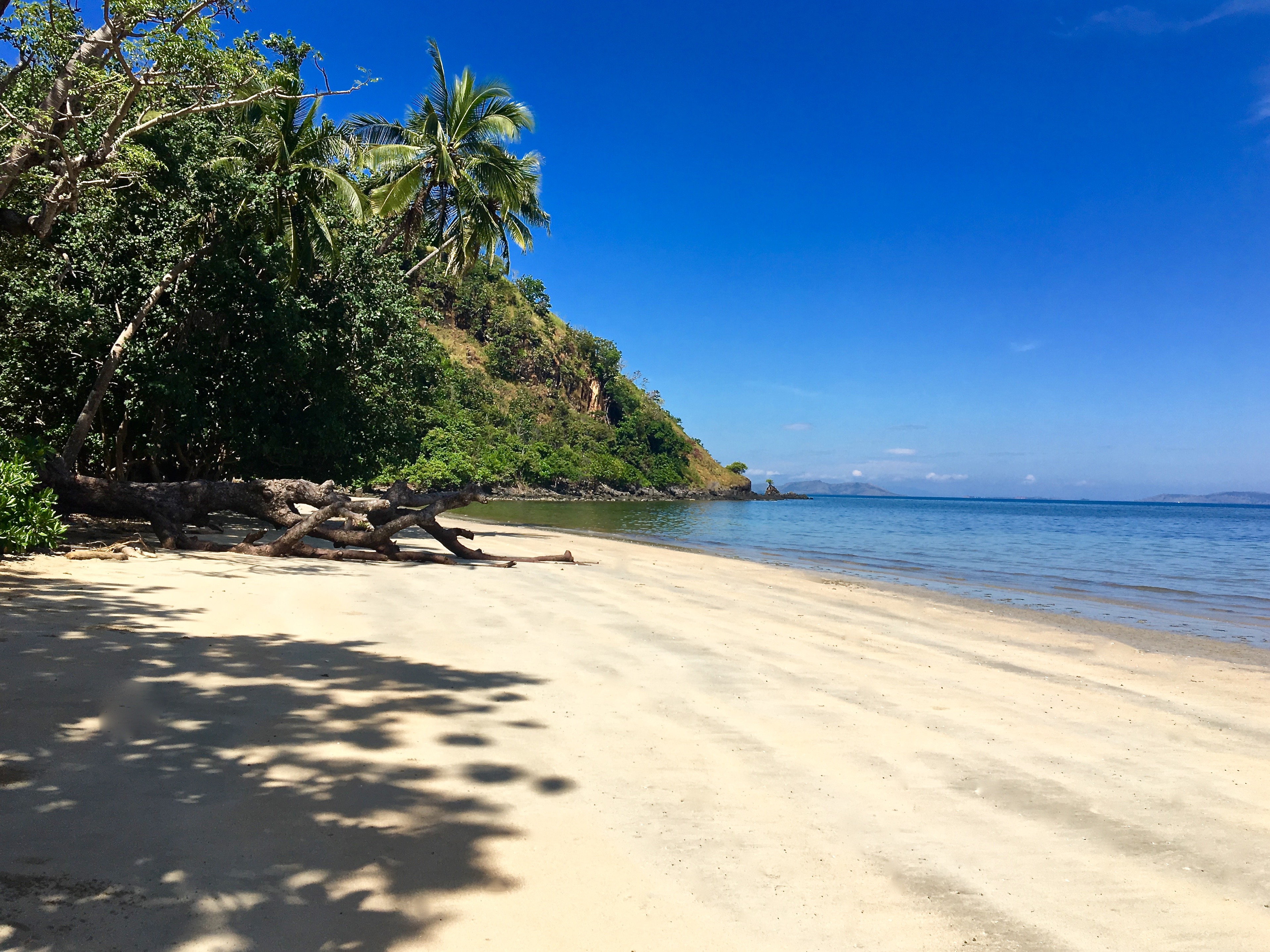 Dongalan Beach, Kokotuku Peninsula, West Flores, Indonesia